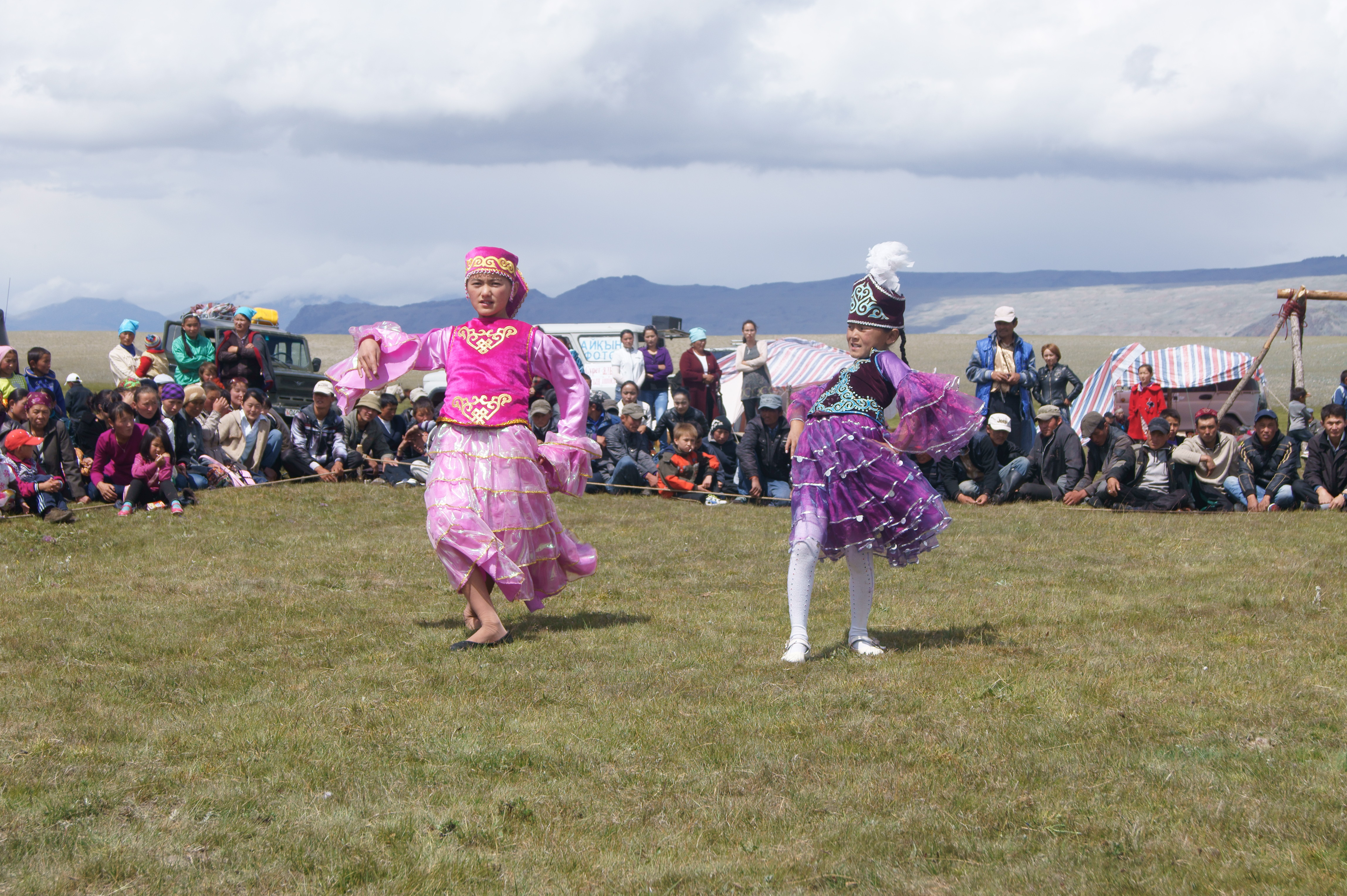 Traditional Kazakh dance at festival in Tavan Bogd National Park